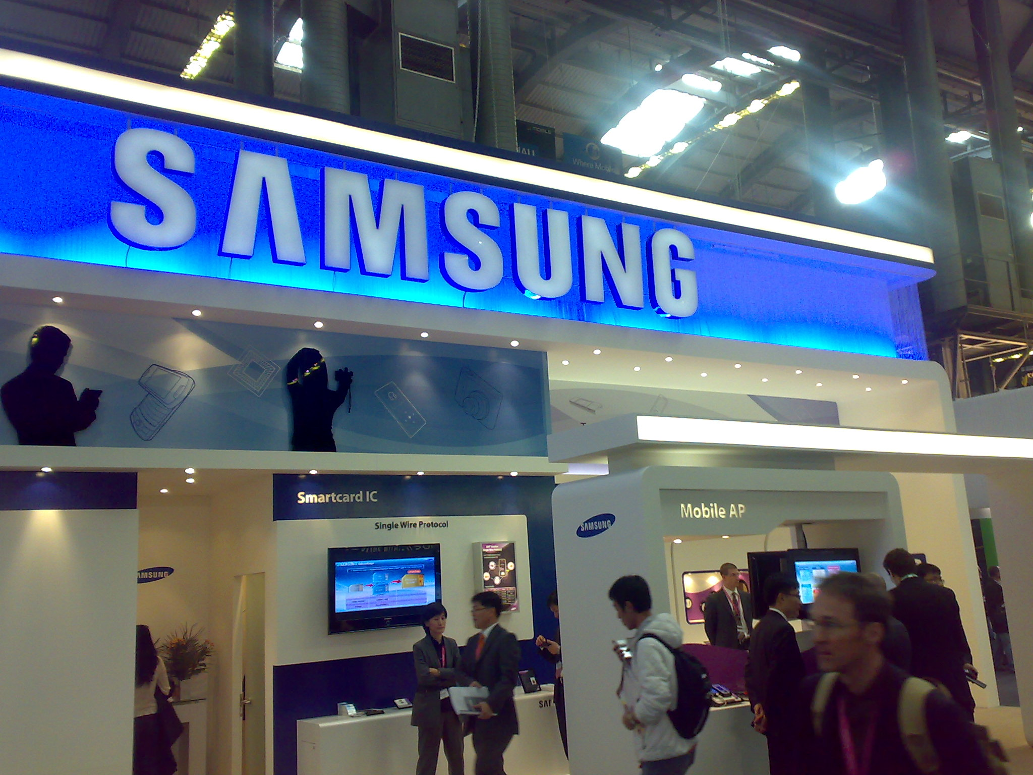 Samsung Electronics stand at GSMA Barcelona 2008